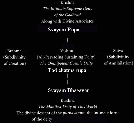 Krishna as Svayam Bhagavan in relation Vishnu